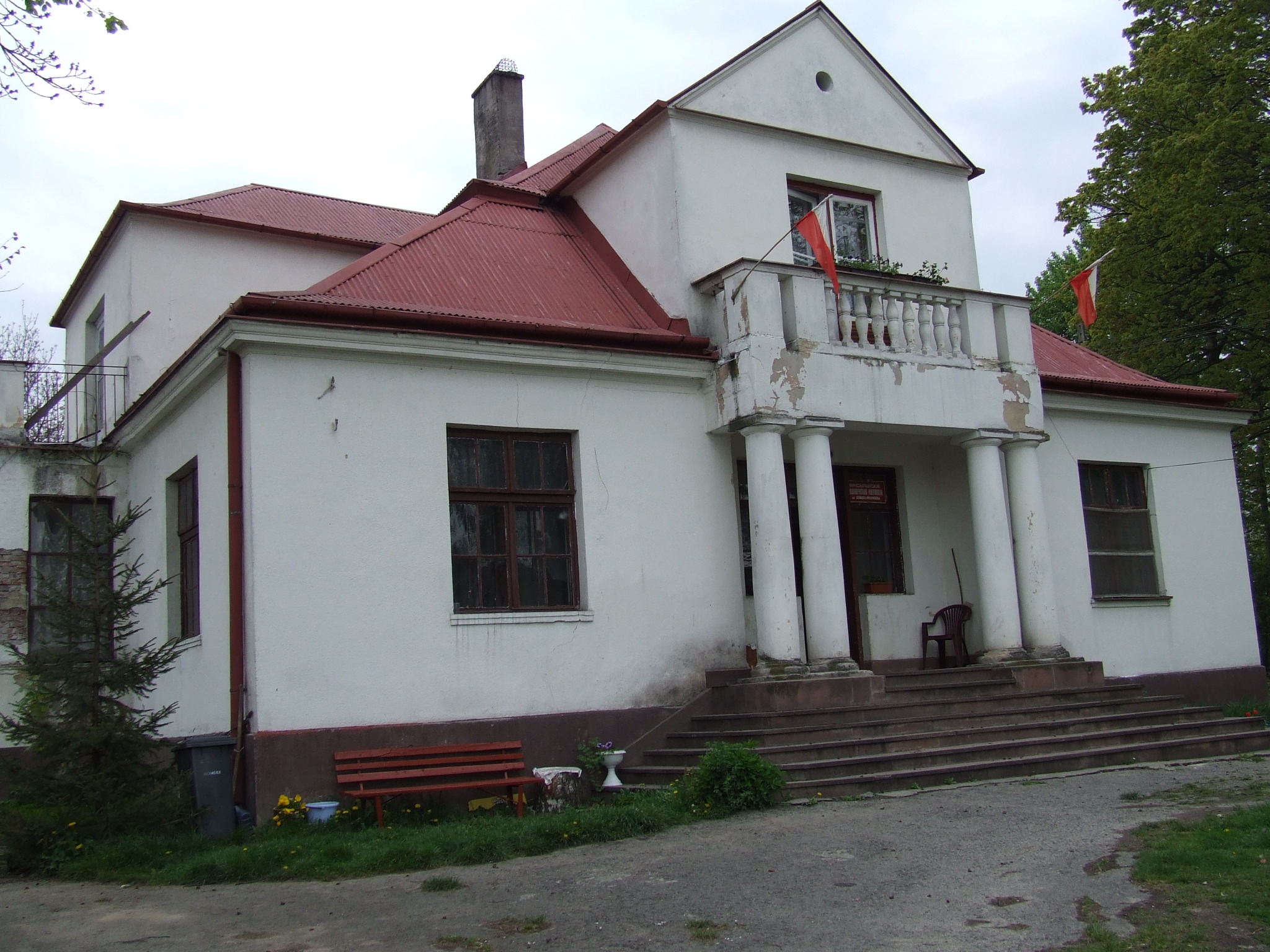 Janowiczki: the colonel Walery Sławek residence